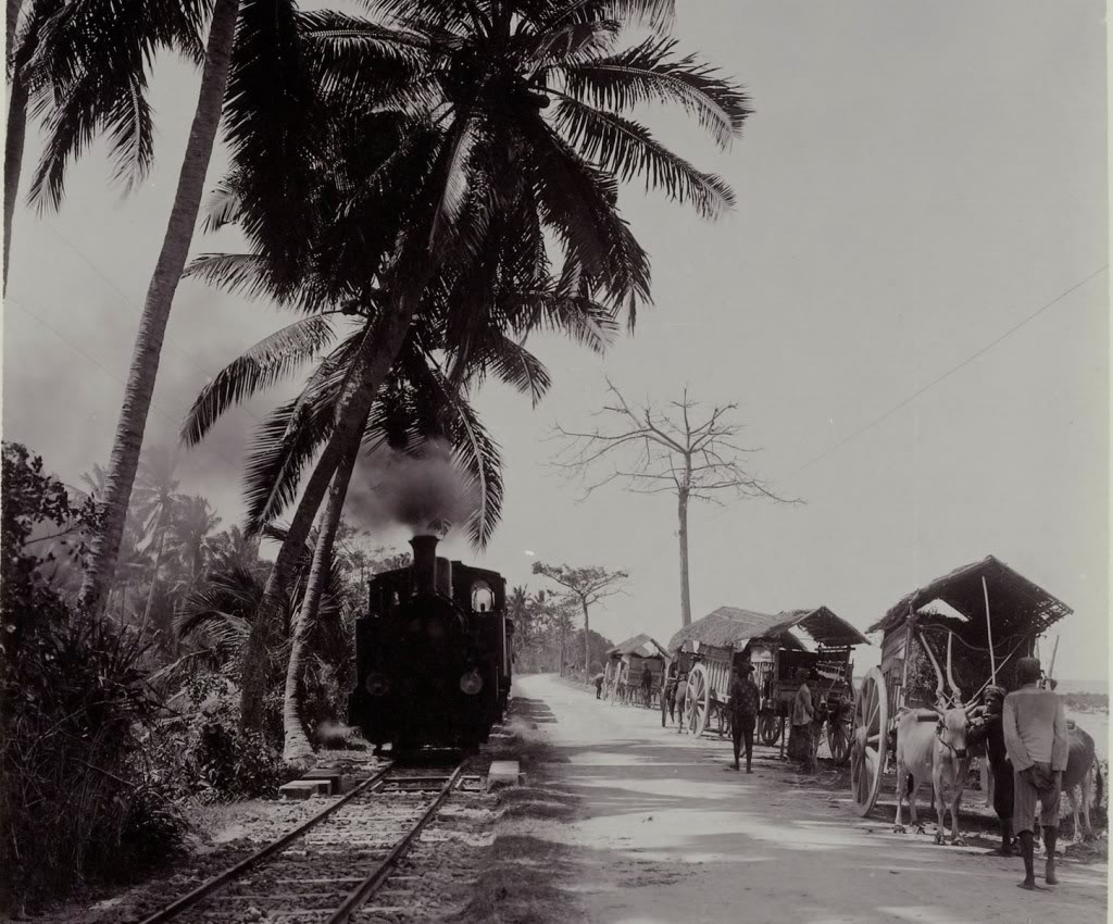 26-KeretaApi - Madoera Stoomtram Maatschappij